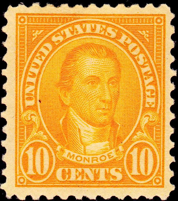 US Postage stamp: James Monroe, Issue of 1925, 10c